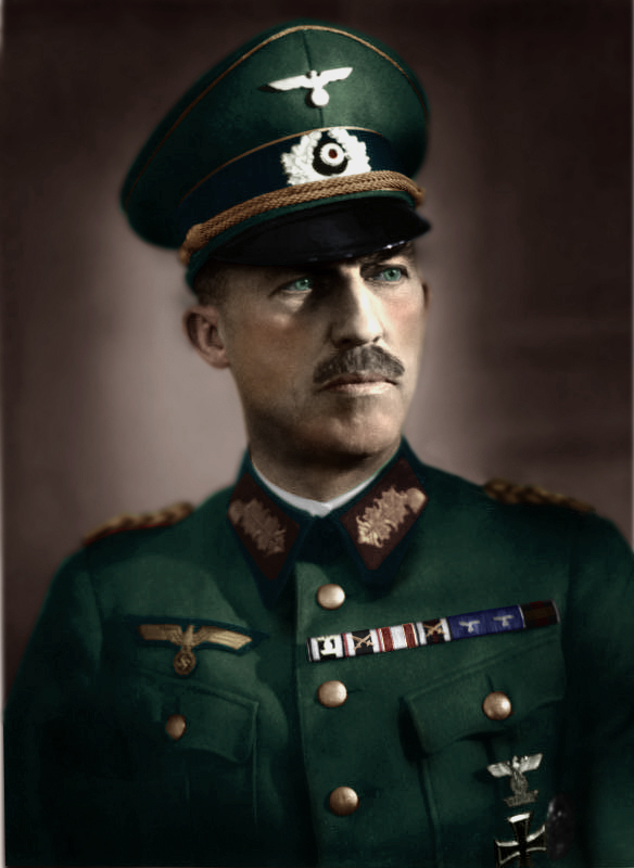 Paul von Hase. Colored photograh.